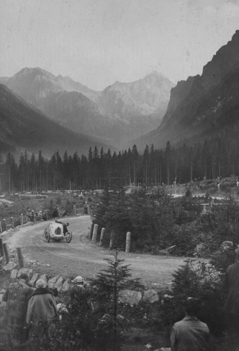 1st International Tatra Rally, Poland, August 1930. Jan Ripper on Bugatti.